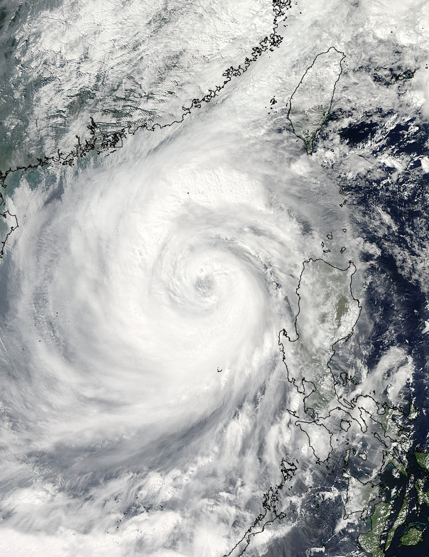 A MODIS image of Typhoon Megi